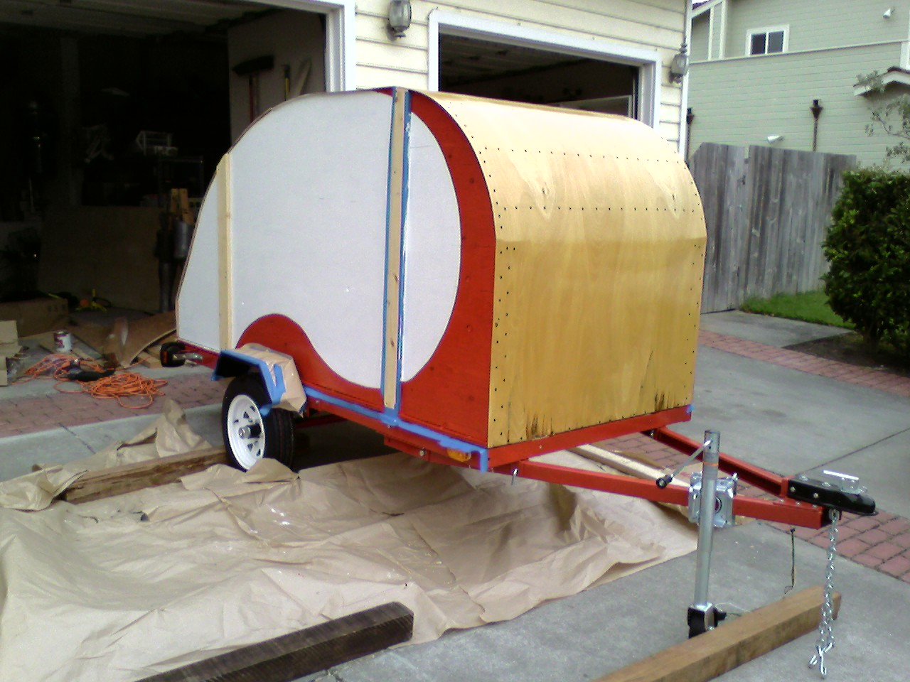 Teardrop trailer being built. Based on the Harbor Freight trailer.